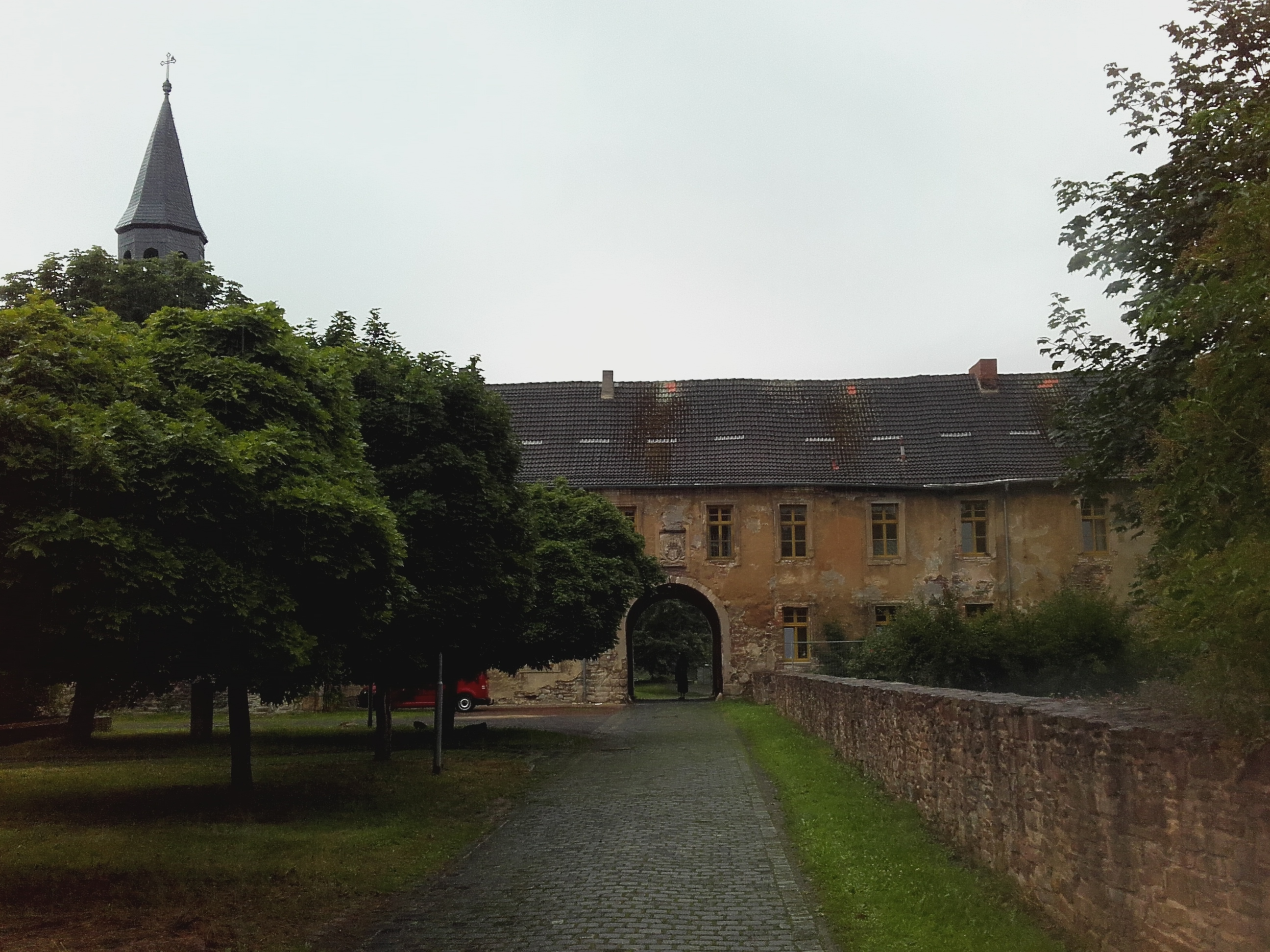 Wimmelburg monastery & manor-house; Wimmelburg, Saxony-Anhalt. In possession of the Pfuel family from 1664–1798.